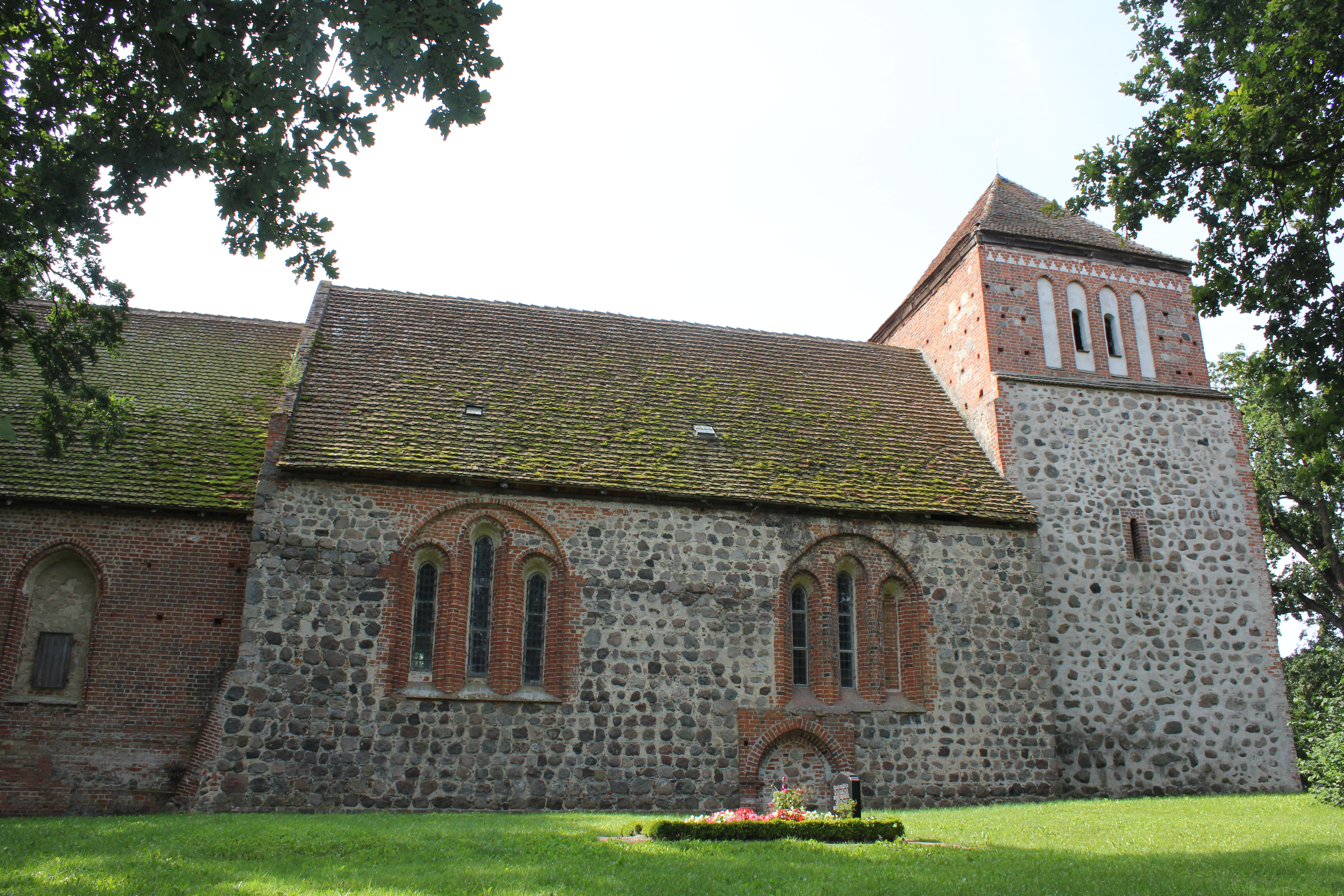 Northside of the Church in Unter Bruez, Germany